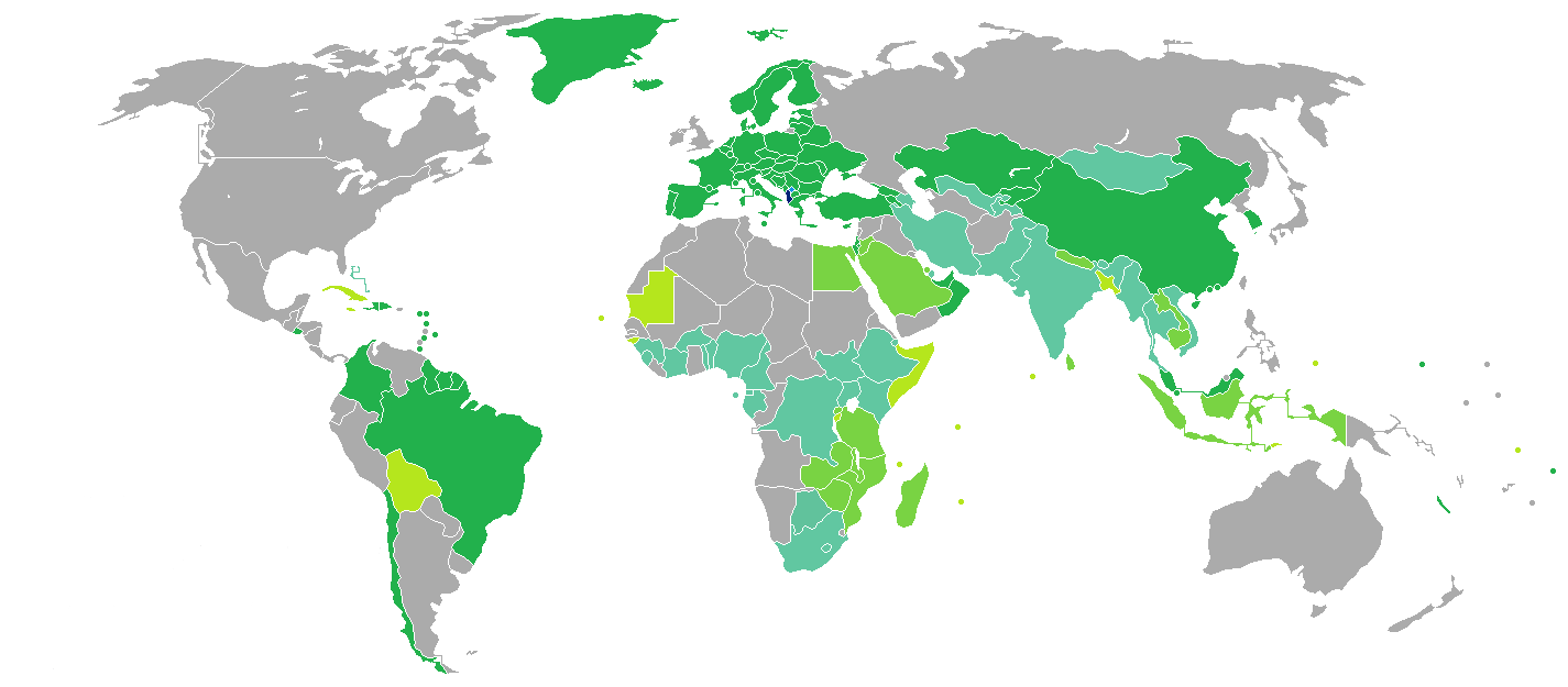 Visa requirements for Albanian citizens Albania Visa free access Visa on arrival eVisa Visa available both on arrival or online Visa required